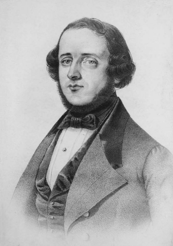 Caetano Maria Ferreira da Silva Beirão (1807-1871), Portuguese physician and politician.